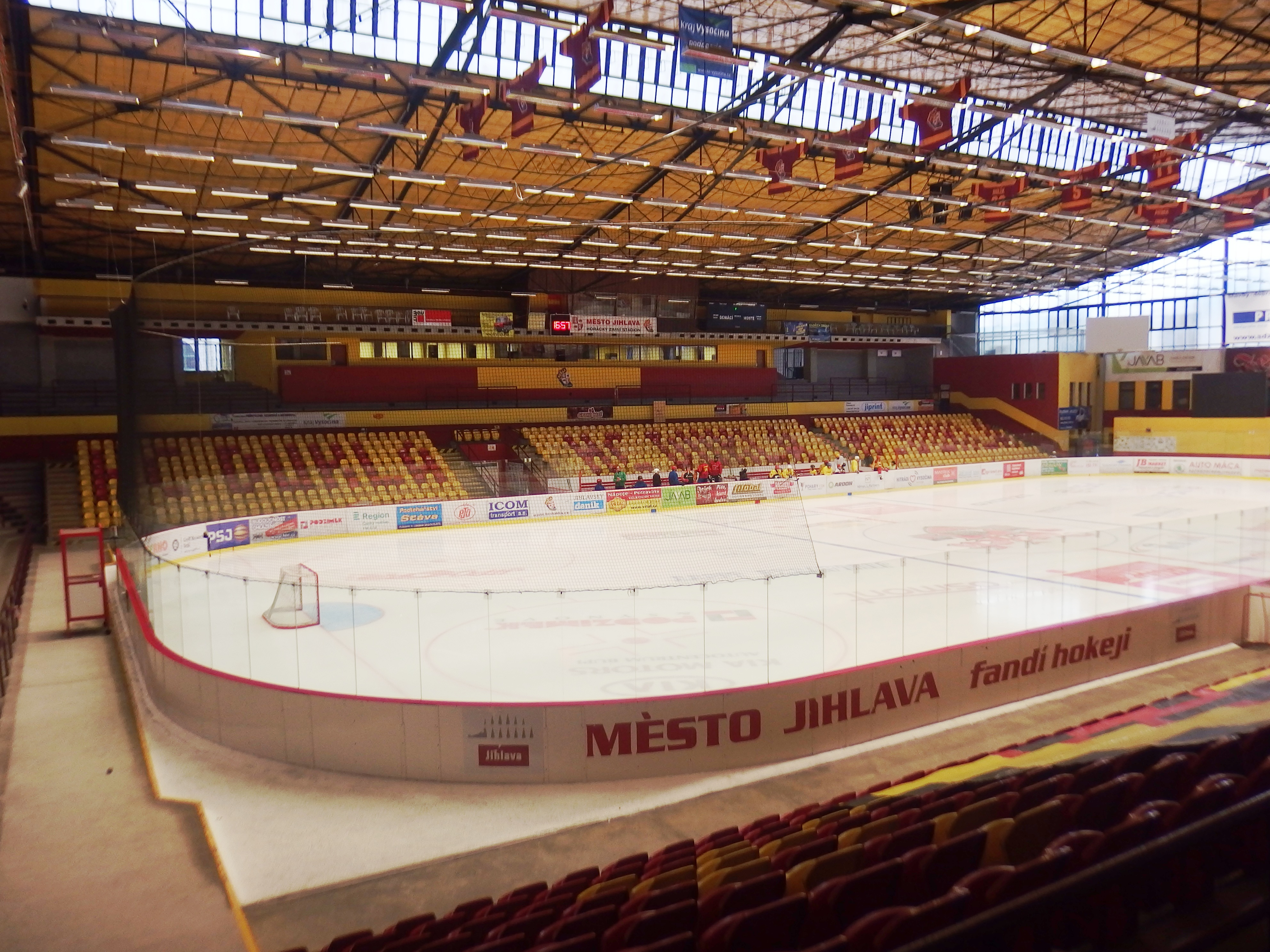 Jihlava, Česká republika. Horácký zimní stadion, ice hockey stadium of HC Dukla Jihlava.